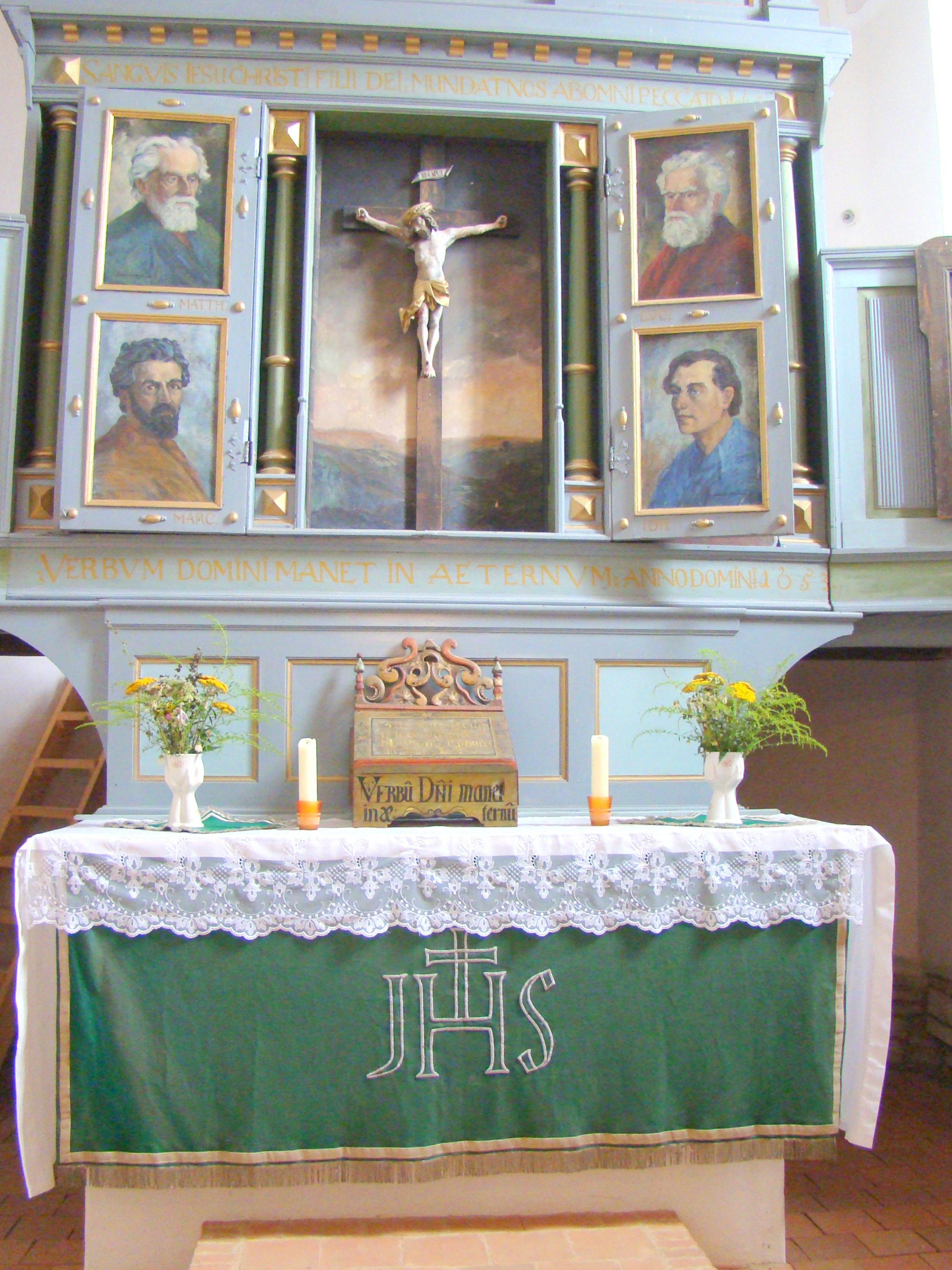 Fortified church in Meșendorf, Brașov County, Romania